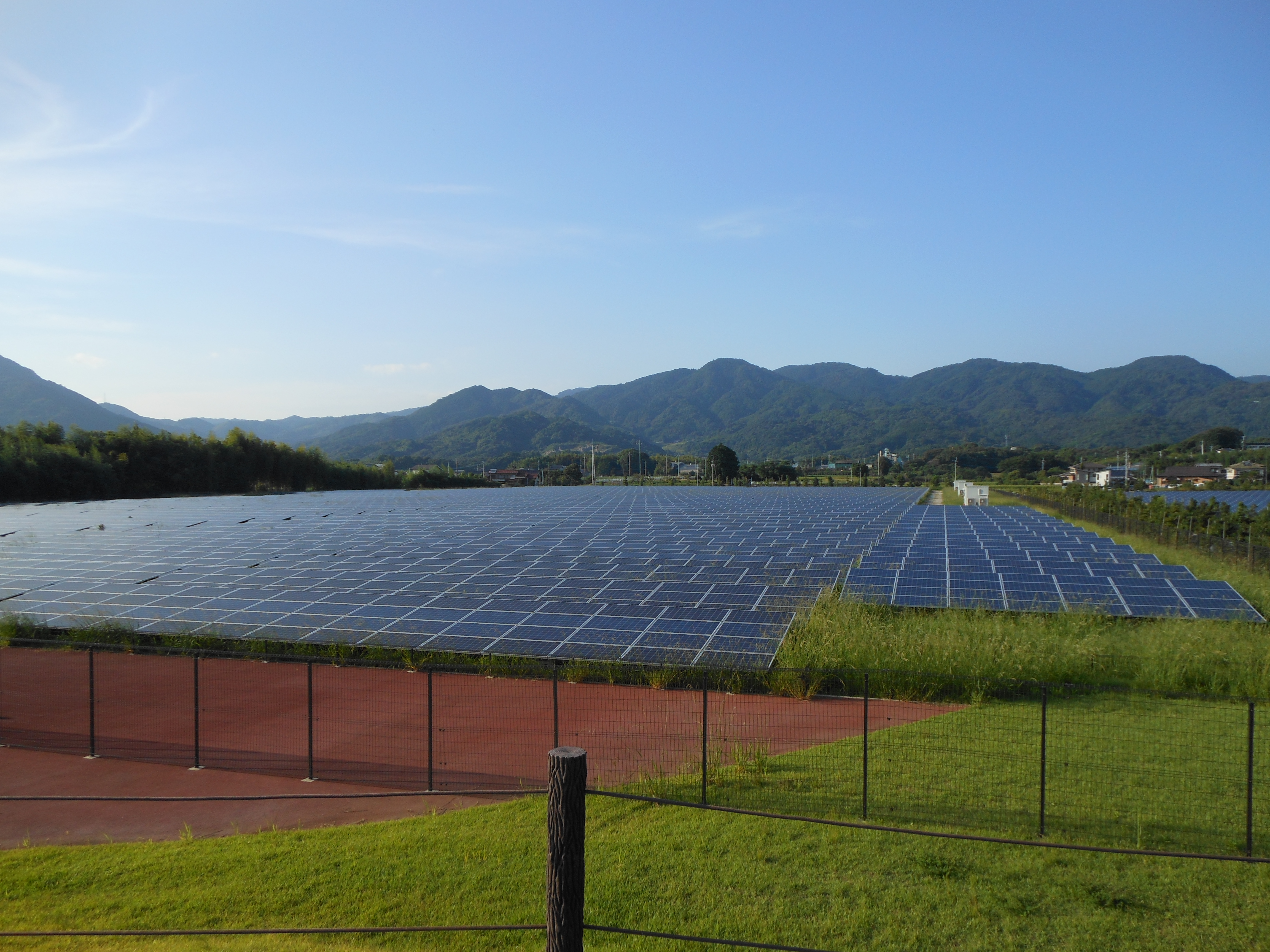 Yoshinogari photovoltaic power plant and Sefuri Mountains in Kanzaki city, Saga prefecture.